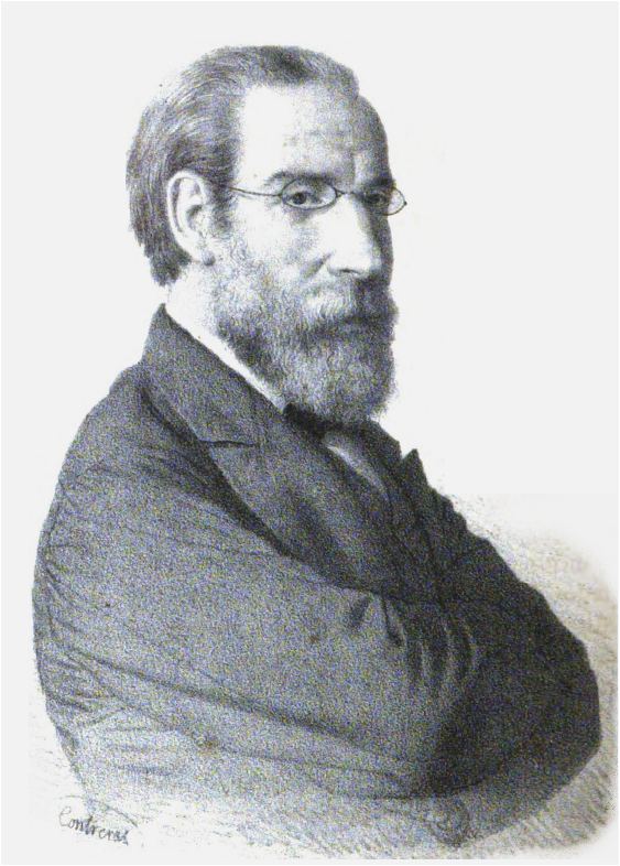 Francisco Pi Y Margall, president of the First Spanish Republic